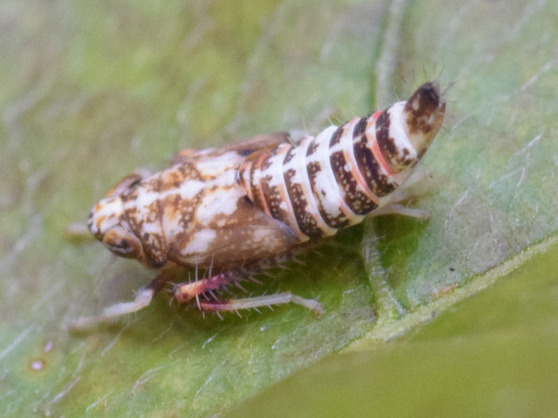 Orientus ishidae (nymph) photographed in Gwydir Street, Cambridge, September 2014.